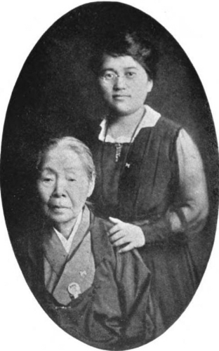 Two Japanese women in an oval portrait frame. The standing woman is younger, wearing a Western-style dress and glasses; her hands are on the shoulders of an older woman, wearing a Japanese-style dress.